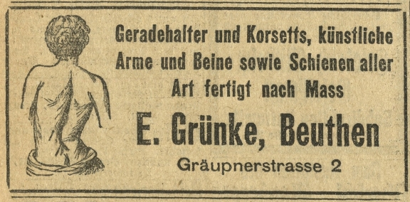 press advertisement published in German newspaper "Der Oberschlesische Wanderer"